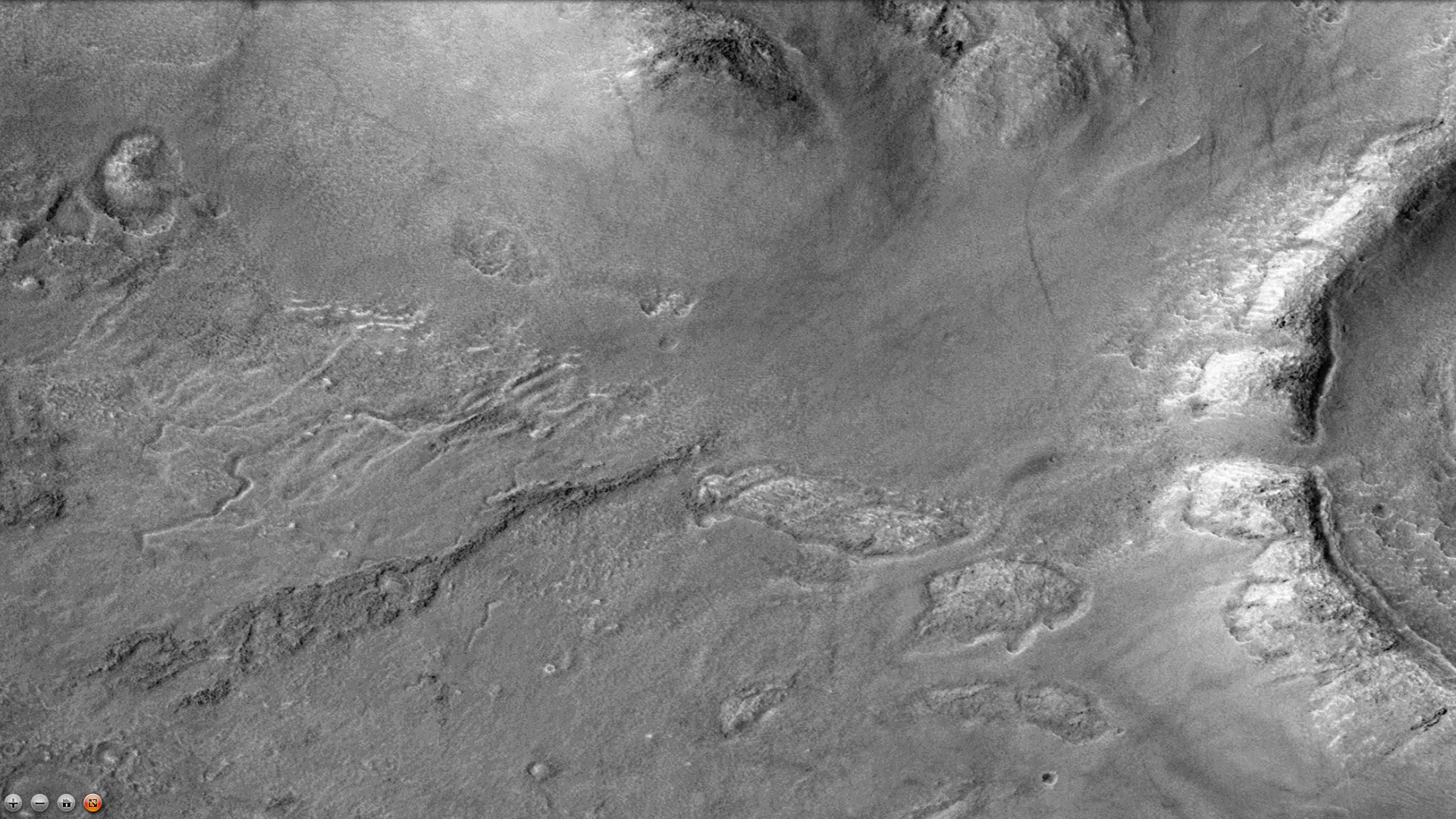 West side of Nansen Crater showing channels, as seen by ctx